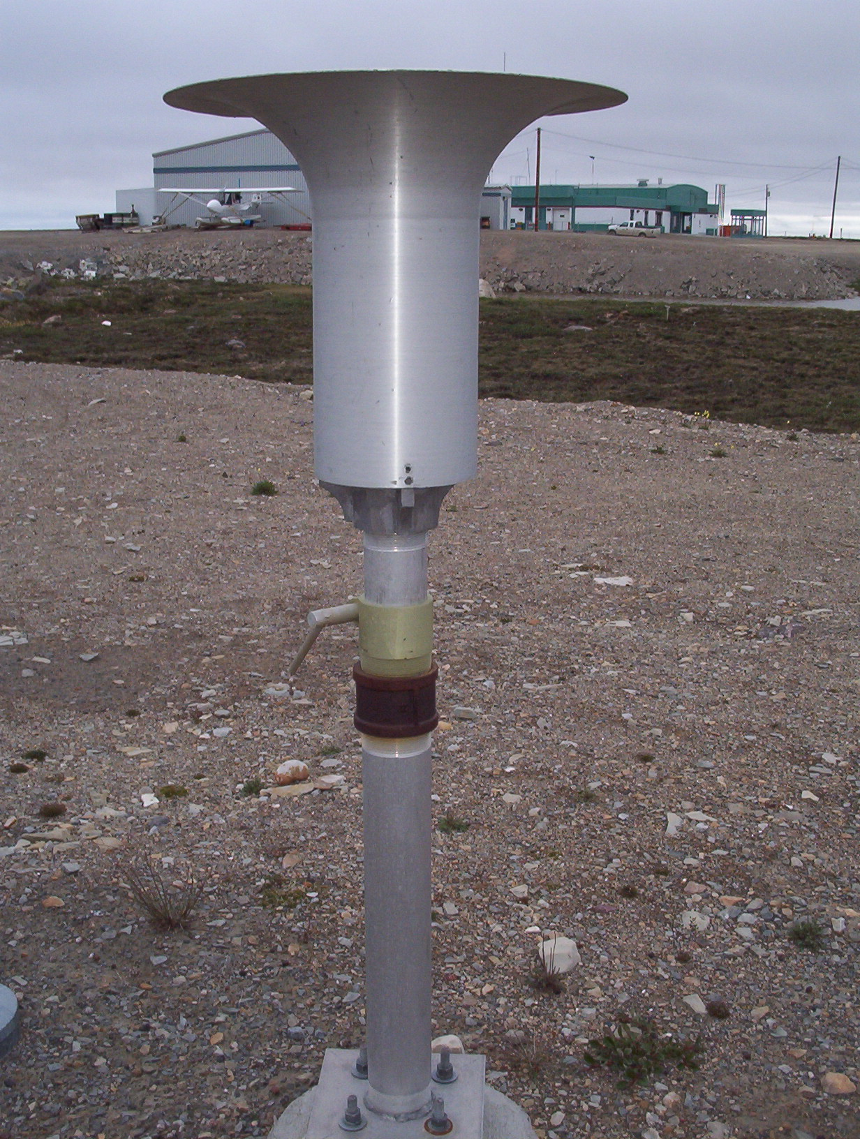 The snow gauge funnel and mount at Cambridge Bay, Nunavut, Canada. The container fits inside the funnel.